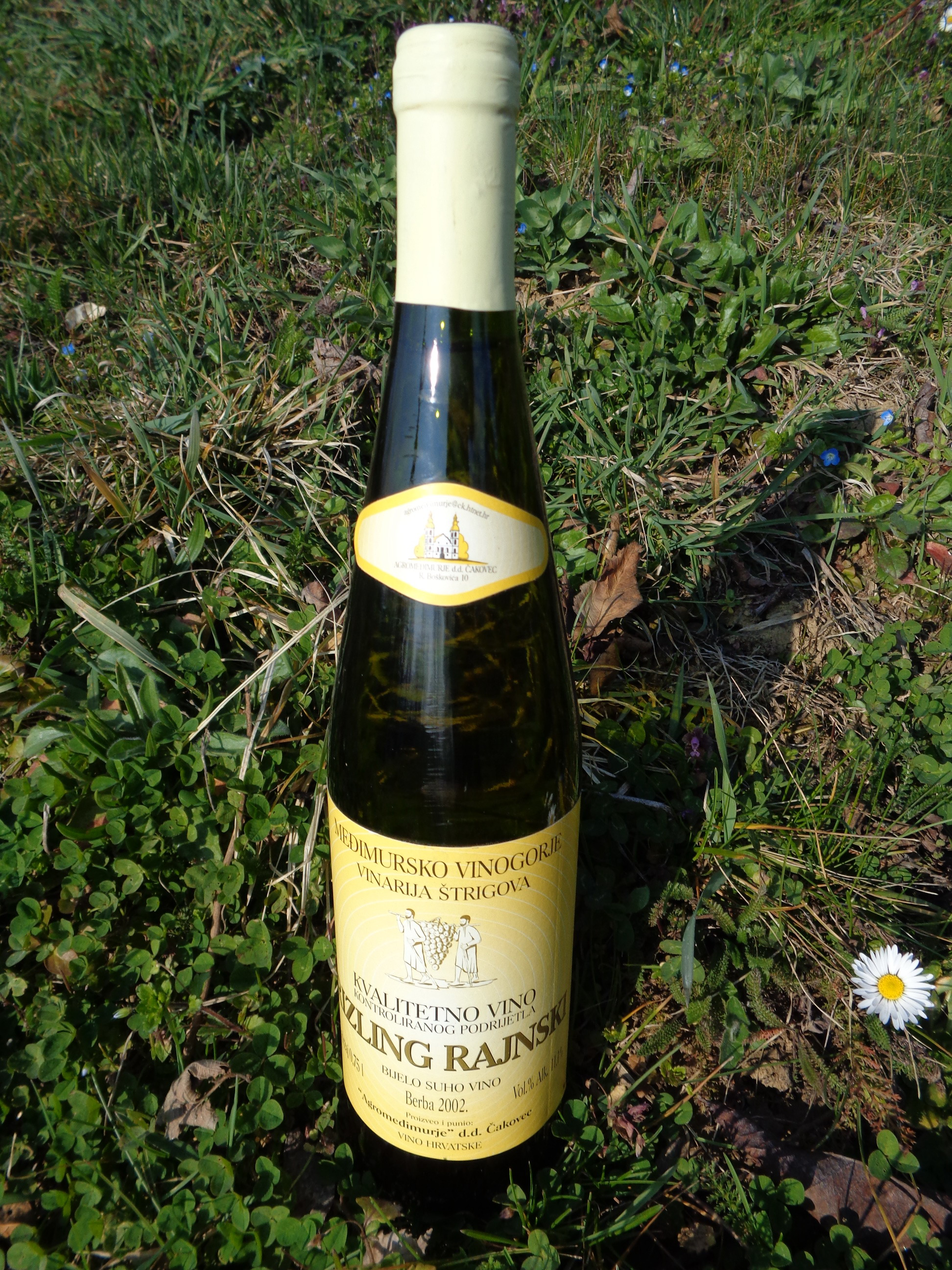 A bottle of Riesling of Rhine wine, quality dry white wine with controlled geographical origin, produced in Medjimurie wine growing subregion, Štrigova Municipality, northern Croatia (2002 vintage)